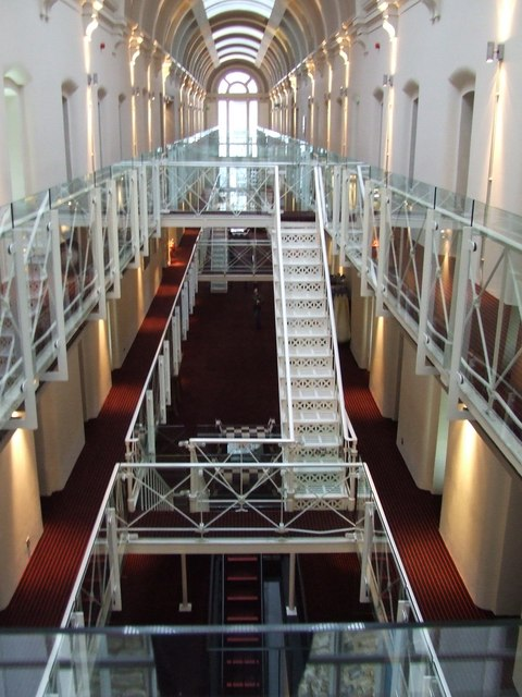 19th C Victorian Prison (in castle) turned into 21st C 4 star Hotel This was a great picture to submit as it shows great modern change of use, the former C wing of the prison is now a chic Malmaison Hotel. Worth a visit and you can sleep in the cells for the night. This location has been used in many films since it was decommissioned 10 years ago.